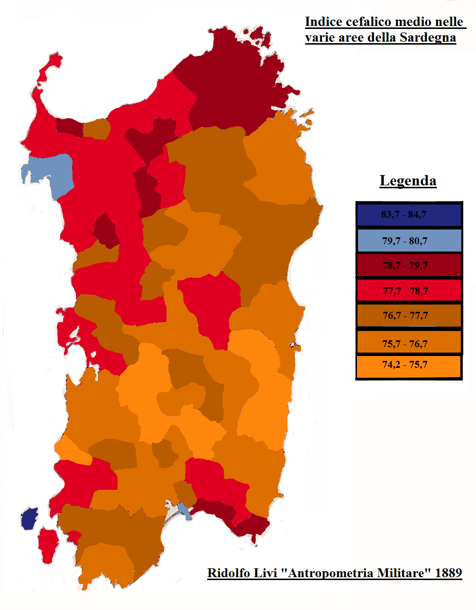 Cephalic index in the Sardinian sub-regions